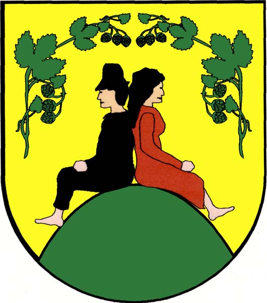 Coat of amrs of Hořesedly , District Rakovník, Czech Republic